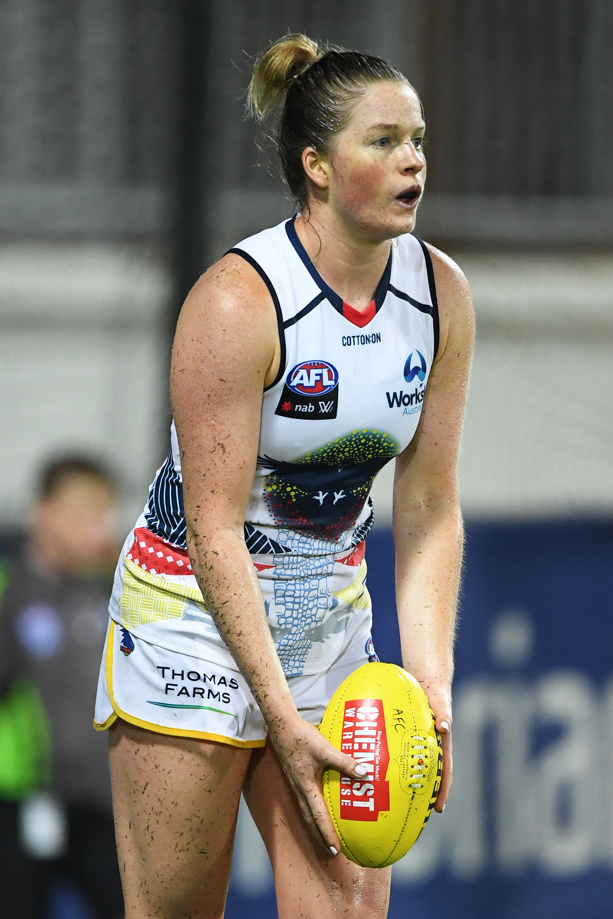 Maisie Nankivell of Adelaide during the 2019 AFL Women's practice match between the Adelaide Football Club and Fremantle Football Club at TIO Stadium on January 19, 2019 in Darwin Australia.